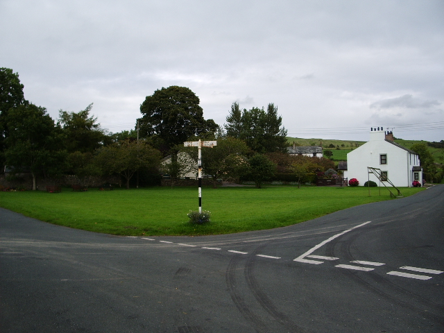 Blindcrake village green. The motorist will have to rely on the goalkeeper's safe pair of hands when there is a game on.